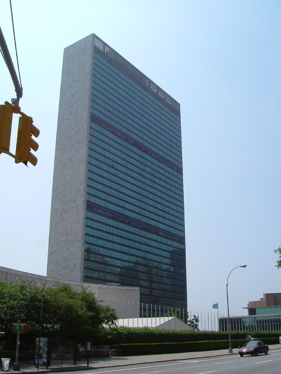 United Nations, New York.